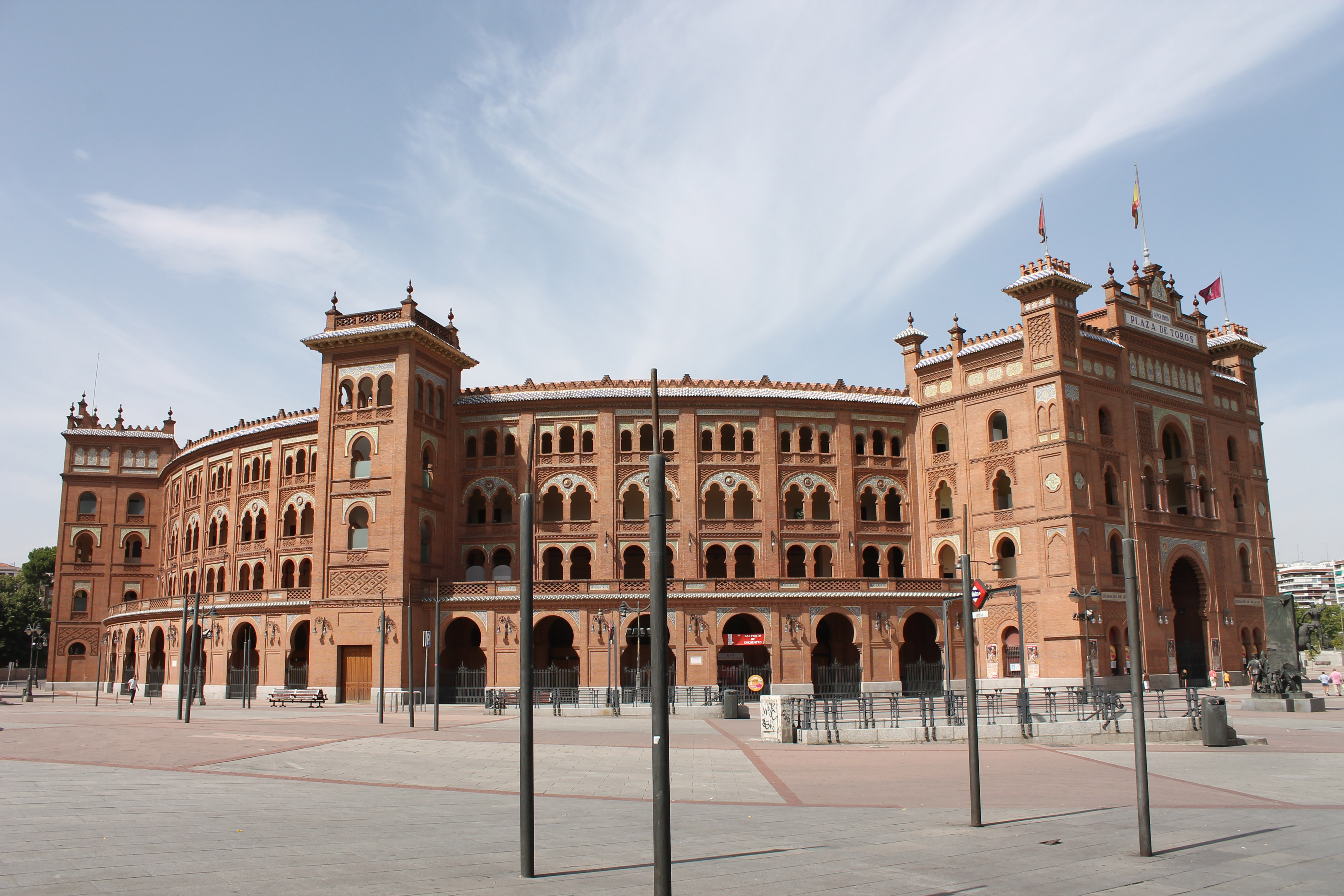 Façade of Las Ventas Bullring in Madrid (Spain).